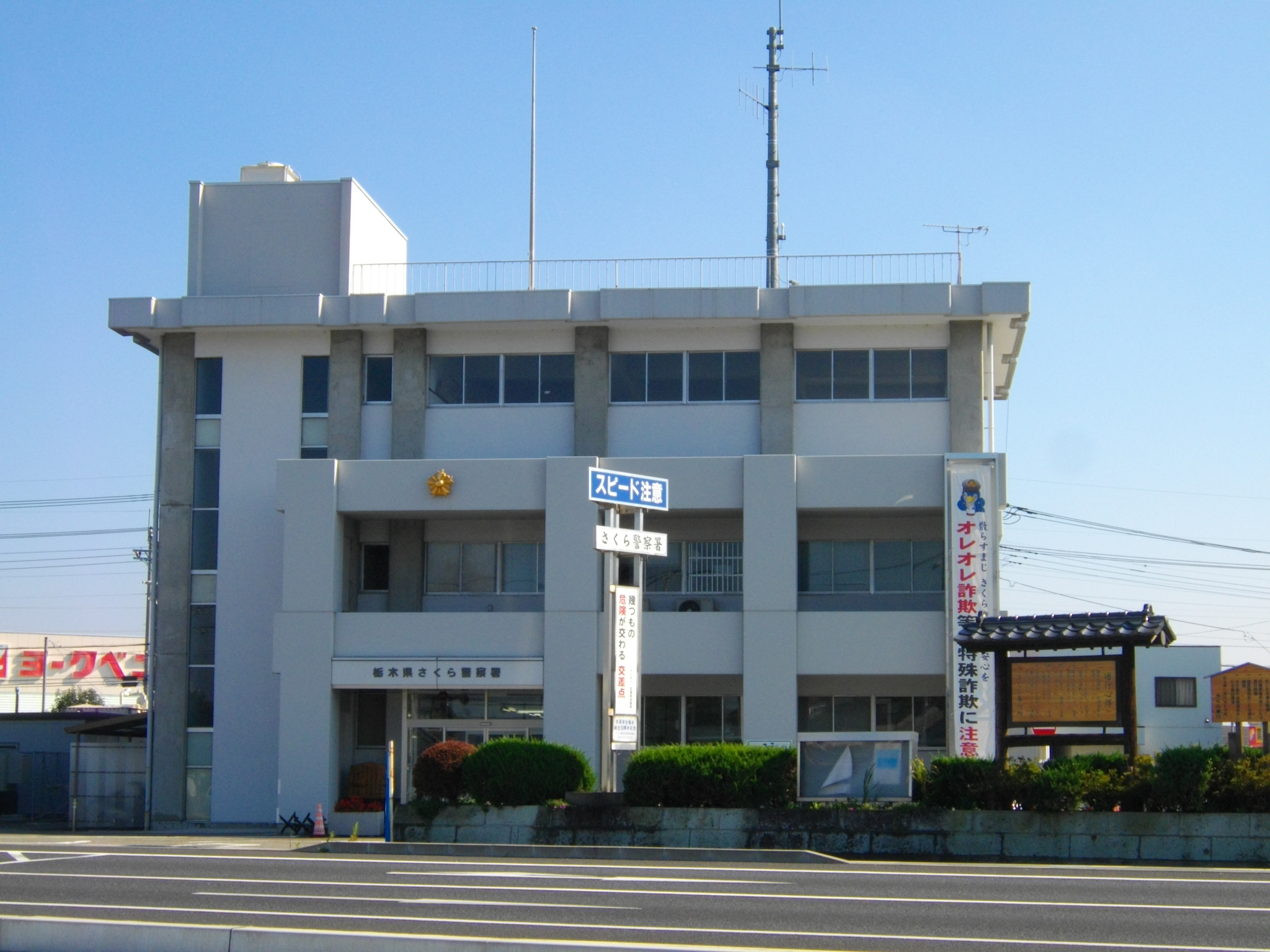 Sakura Police Station (Tochigi)